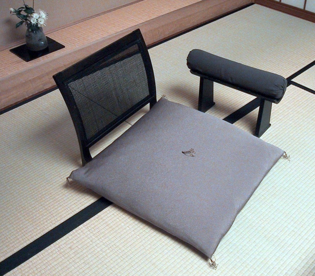 Japanese "chair" and armrest See also other images from the same site: 1 2 3 4 5 6 7 8 9 10